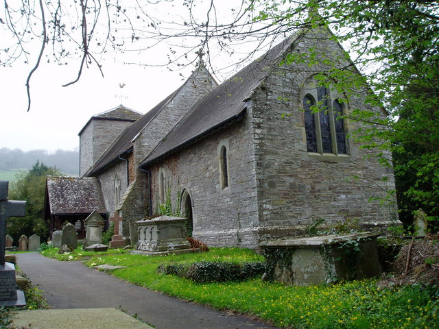 St Gwendoline's Church, Llyswen Rebuilt on Norman foundations in 1862, the only remains of the old church is a Norman font.